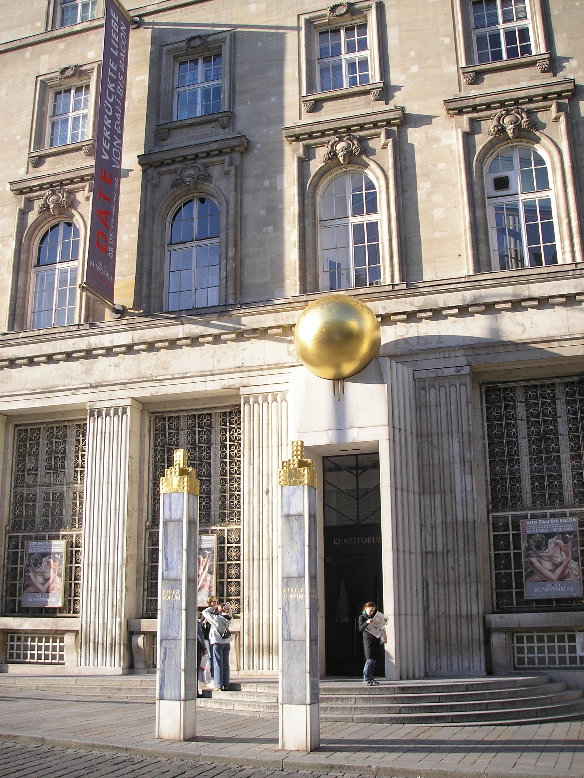 Entrance to the BA~CA Kunstforum at the Freyung square in Vienna's first district Innere Stadt.